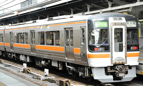 JR Central KiHa 75-404 at Nagoya Station